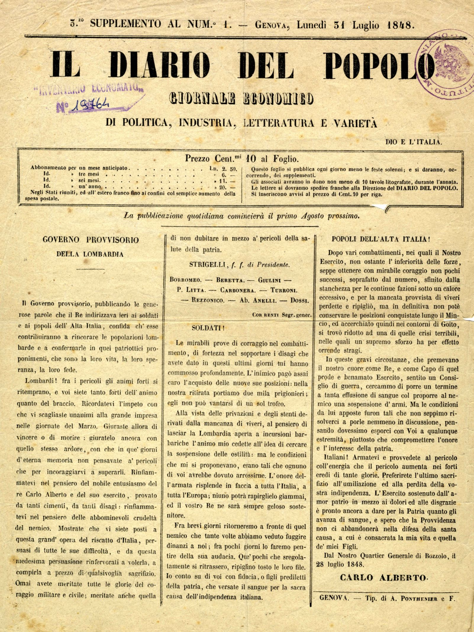 First page of risorgimental newspaper Diario del Popolo 1848